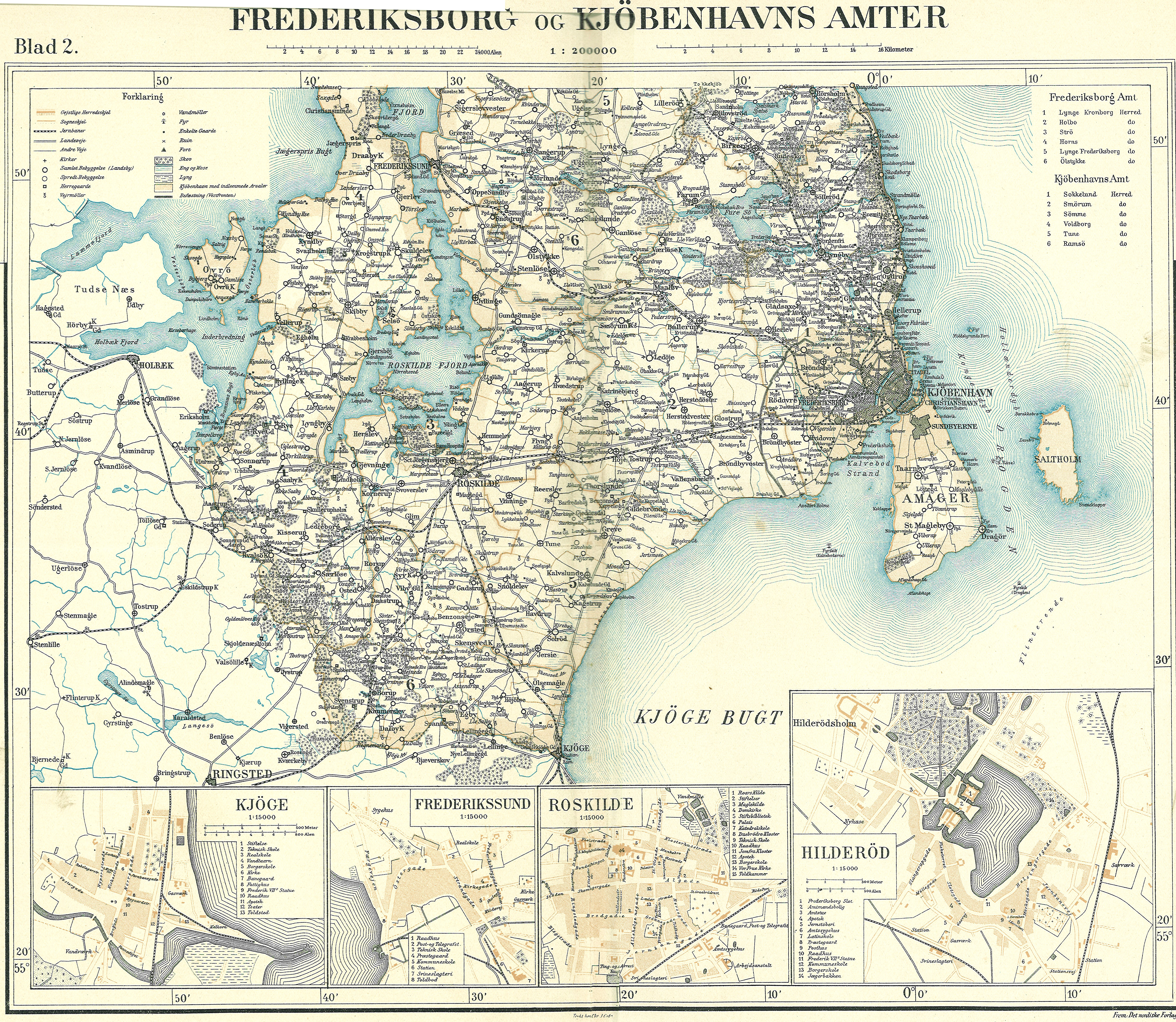 Map of Copenhagen and Frederiksborg Counties in Denmark